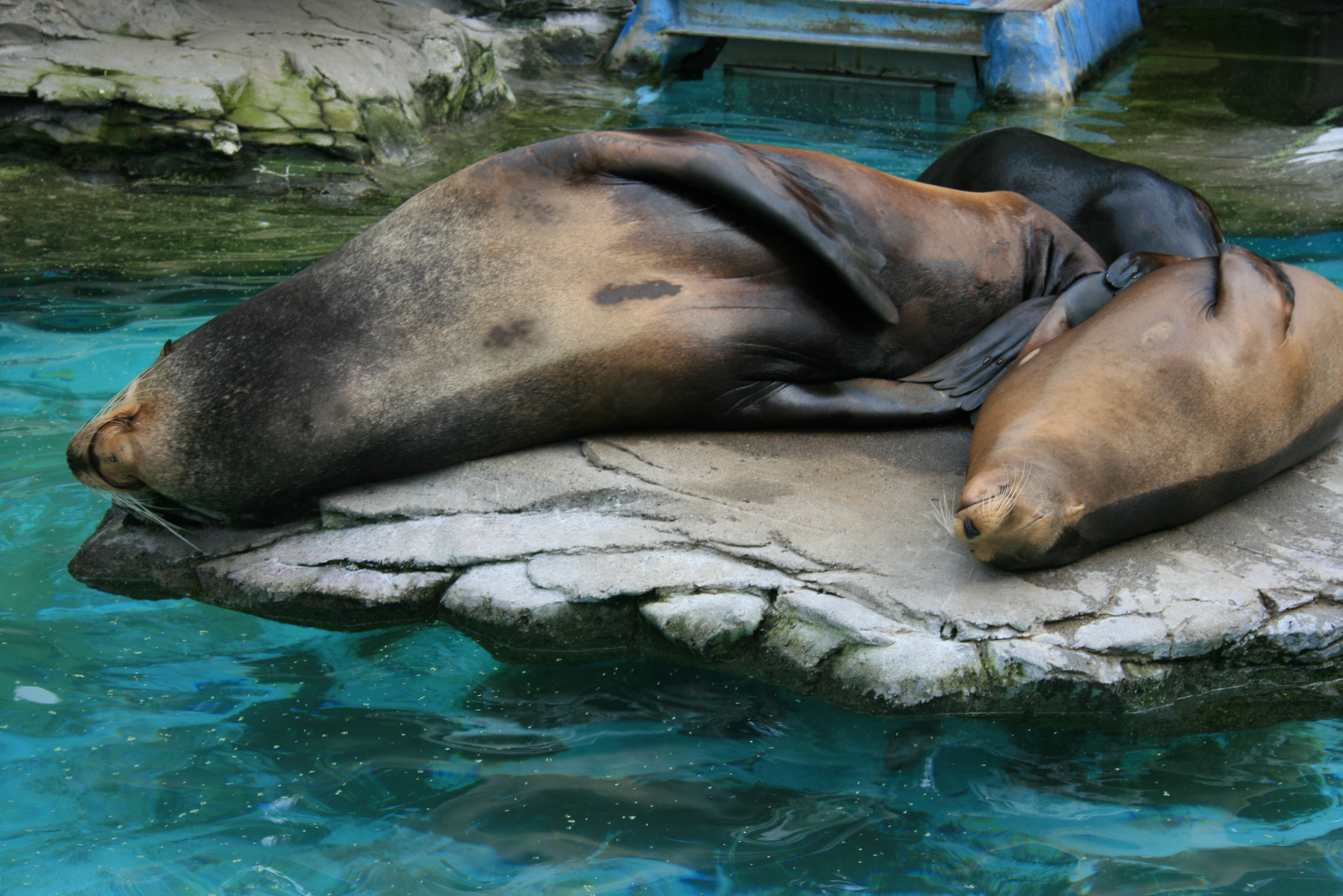 Seals sleeping at the Ueno Zoo (2007)